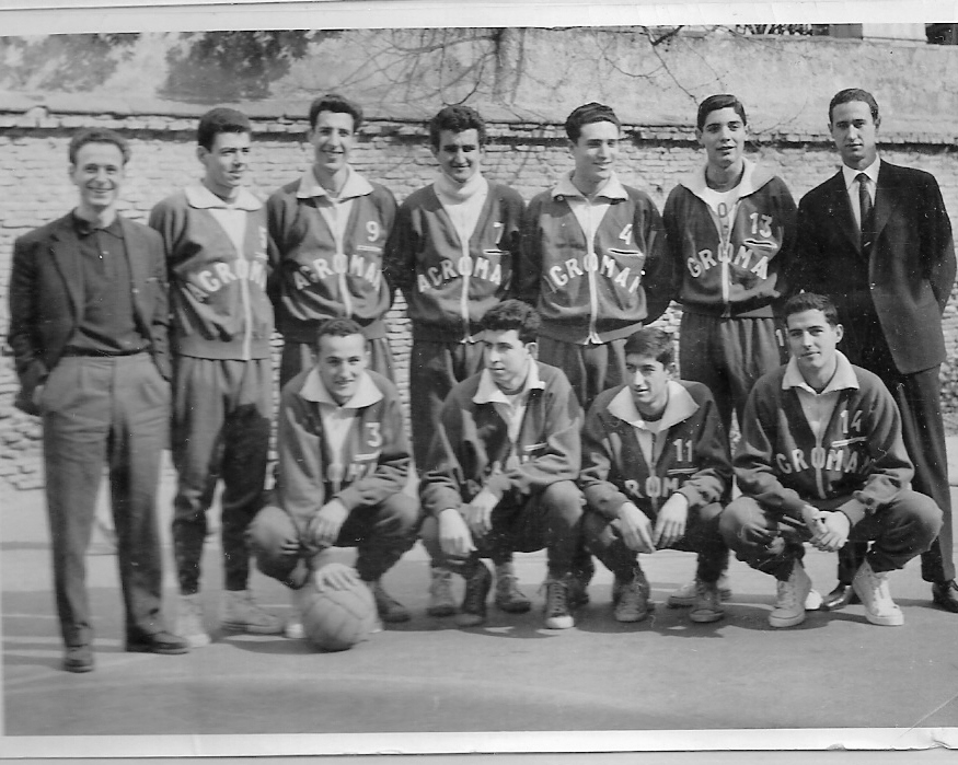 Equipo Agromán años 60